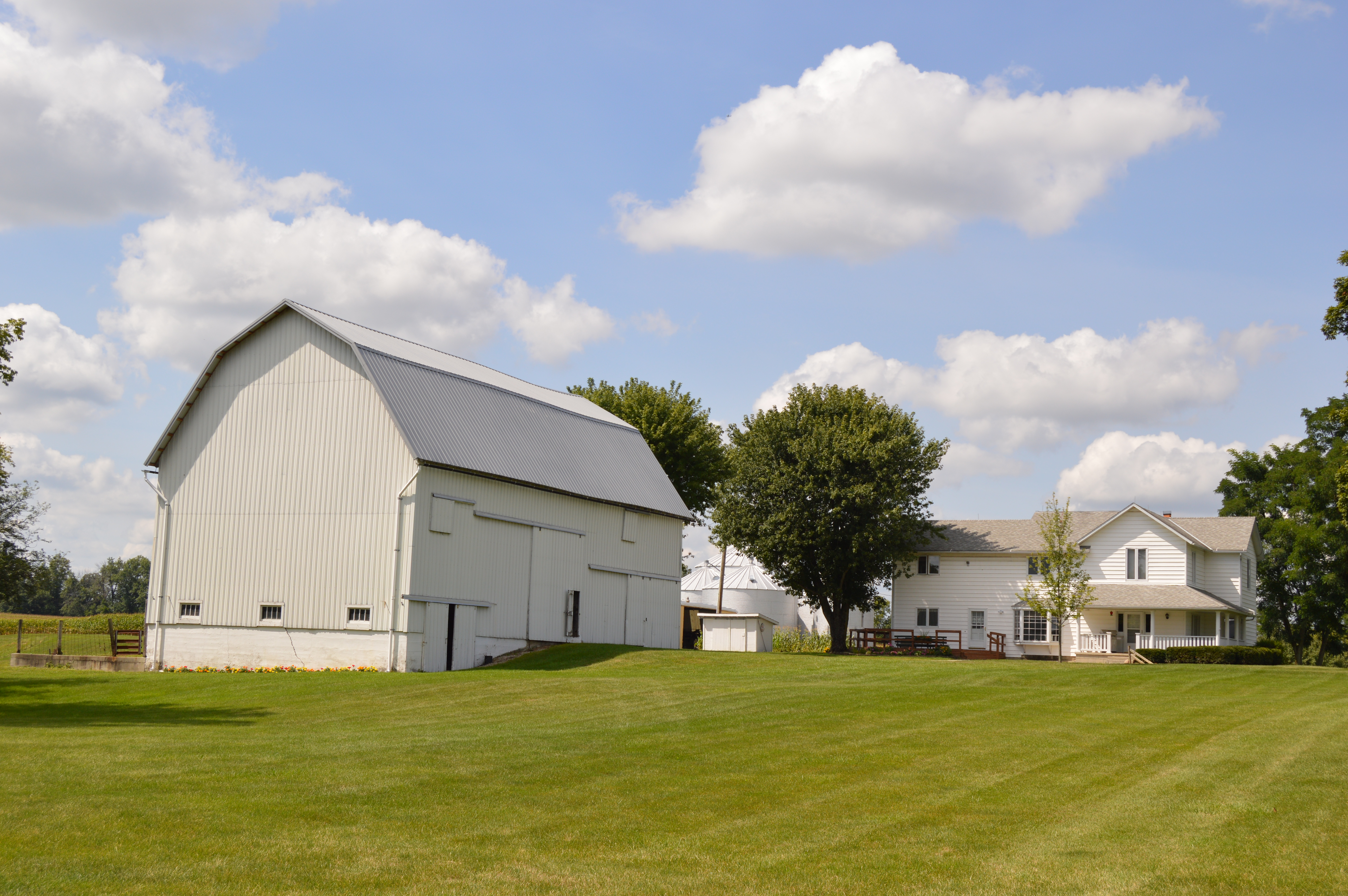 A farmstead on the southwestern corner of the junction of Irvin Shoots and DeCliff Roads in Grand Township, Marion County, Ohio, United States.